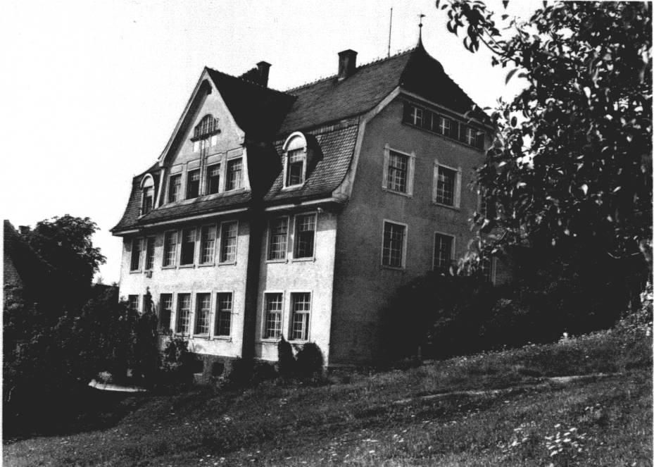 Reifensteiner Schule Schertlinhaus, aufgenommen um 1944, Fotograf unbekannt